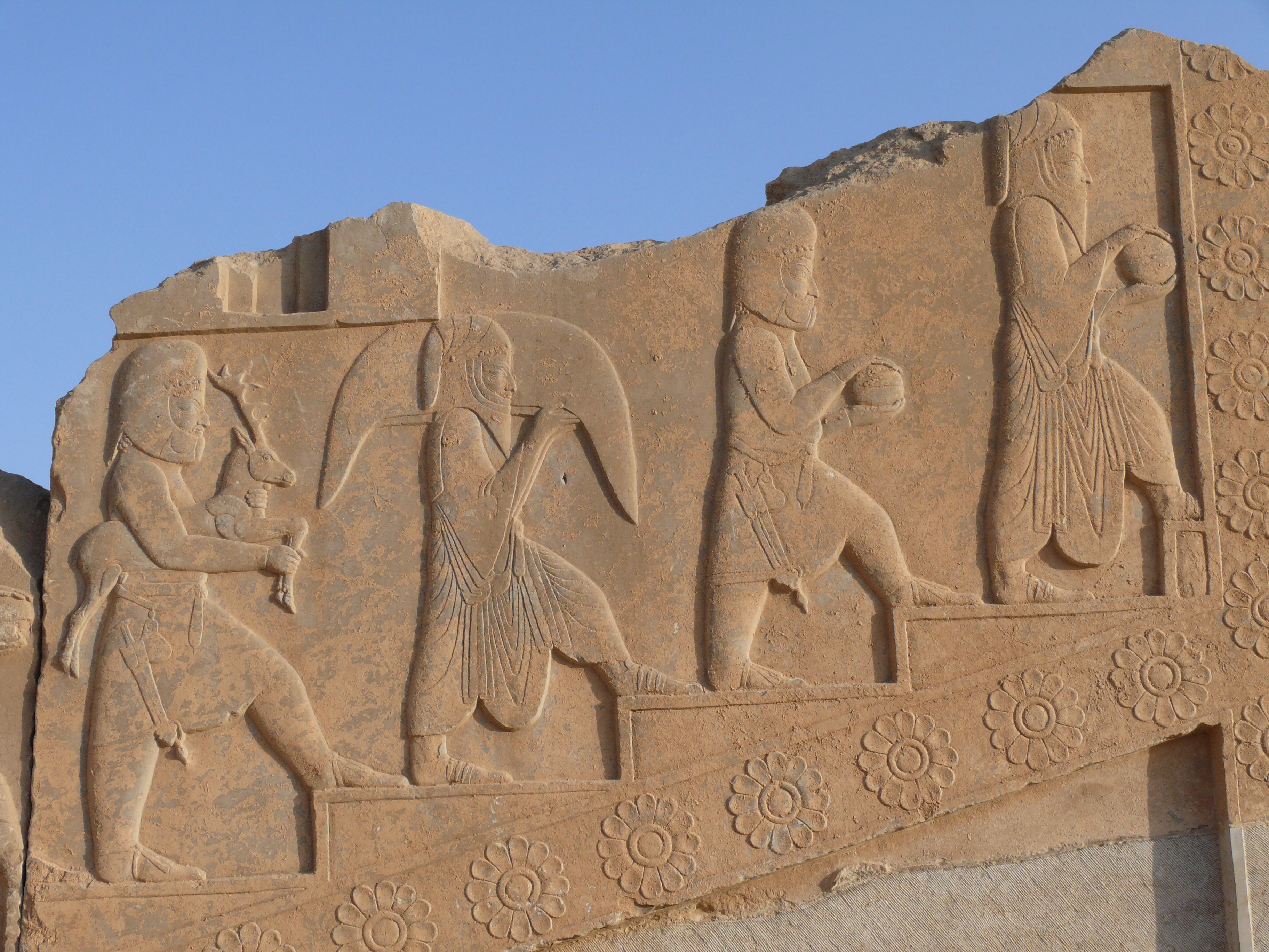 Priests procession at Persepolis. This relief is one of a group of several showing the same kind of procession scene. it decorates the Tachara, Darius the Great's private palace at Persepolis, Iran. According to Werner Dutz, it shows Median and Arachosian priests carrying various gifts and animals for a ritual of sacrifice. During Achaemenian time, Zoroastrism was under a primary form, resulting in the main practice of Mazdeism. 2 Lakes were considered as holy: Hamun-e Orumyeh in Media (Now in Azarbaidjan-e Gharbi province), and Hamun-e Halmand in Arachosia (now at the border between Iran and Afghanistan). It could explain why are the priests medians and Arachosians, identified with their clothings and hats. But controversies also exist, and some scholars do not think the relief shows priests, but servants at to the royal court bringing the necessary for the royal dinners. Achaemenian dinners were very important political ceremonies, and the possibility exist that this reliefs was made to remind the magnifiscence of these dinners where very few priivileged nobles were invited according to the king's will or agenda. Taken in Persepolis, City of Marvdasht, Province of Fars, Iran, April 2008.